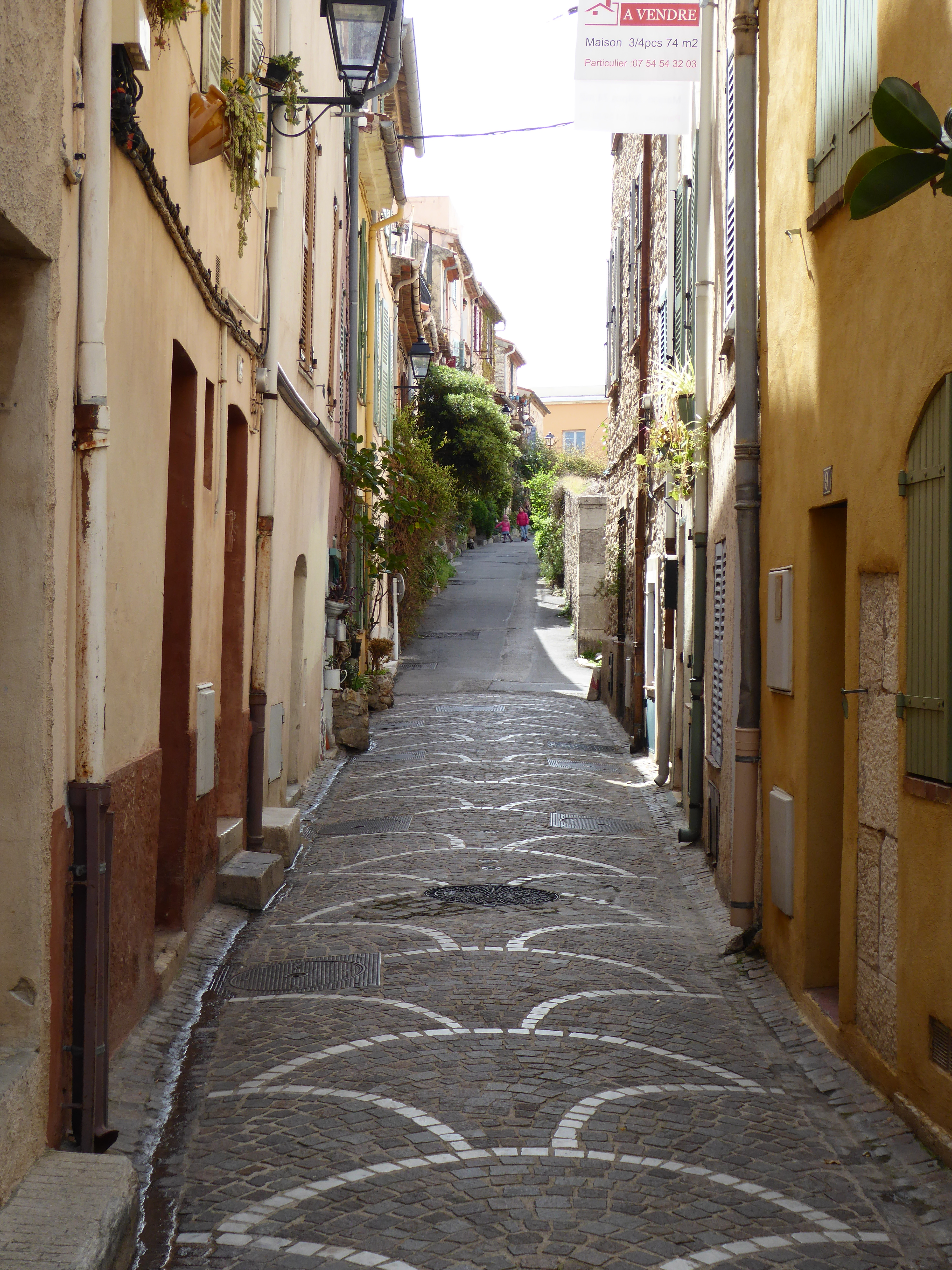 streets in Antibes vieille ville